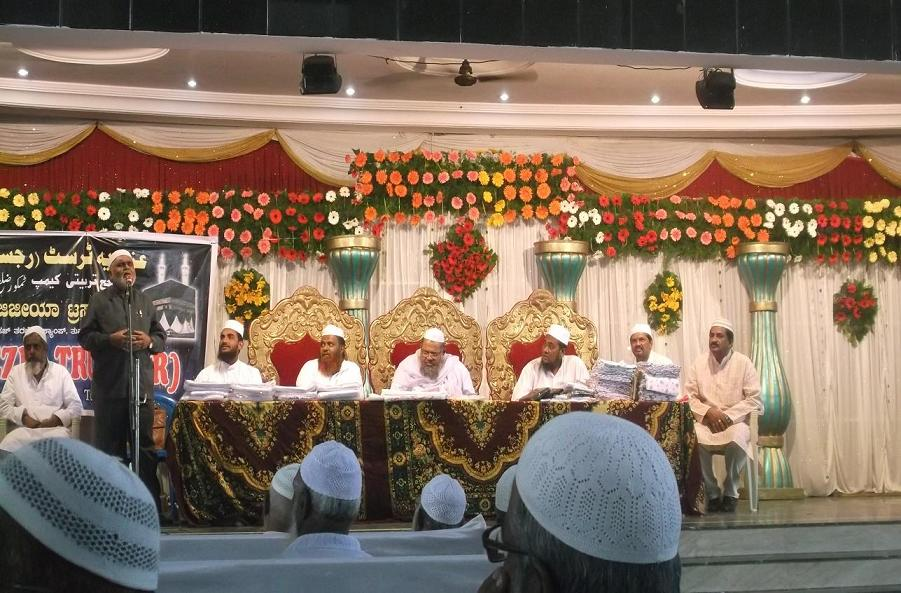 عزیز بلگامی بنگلور